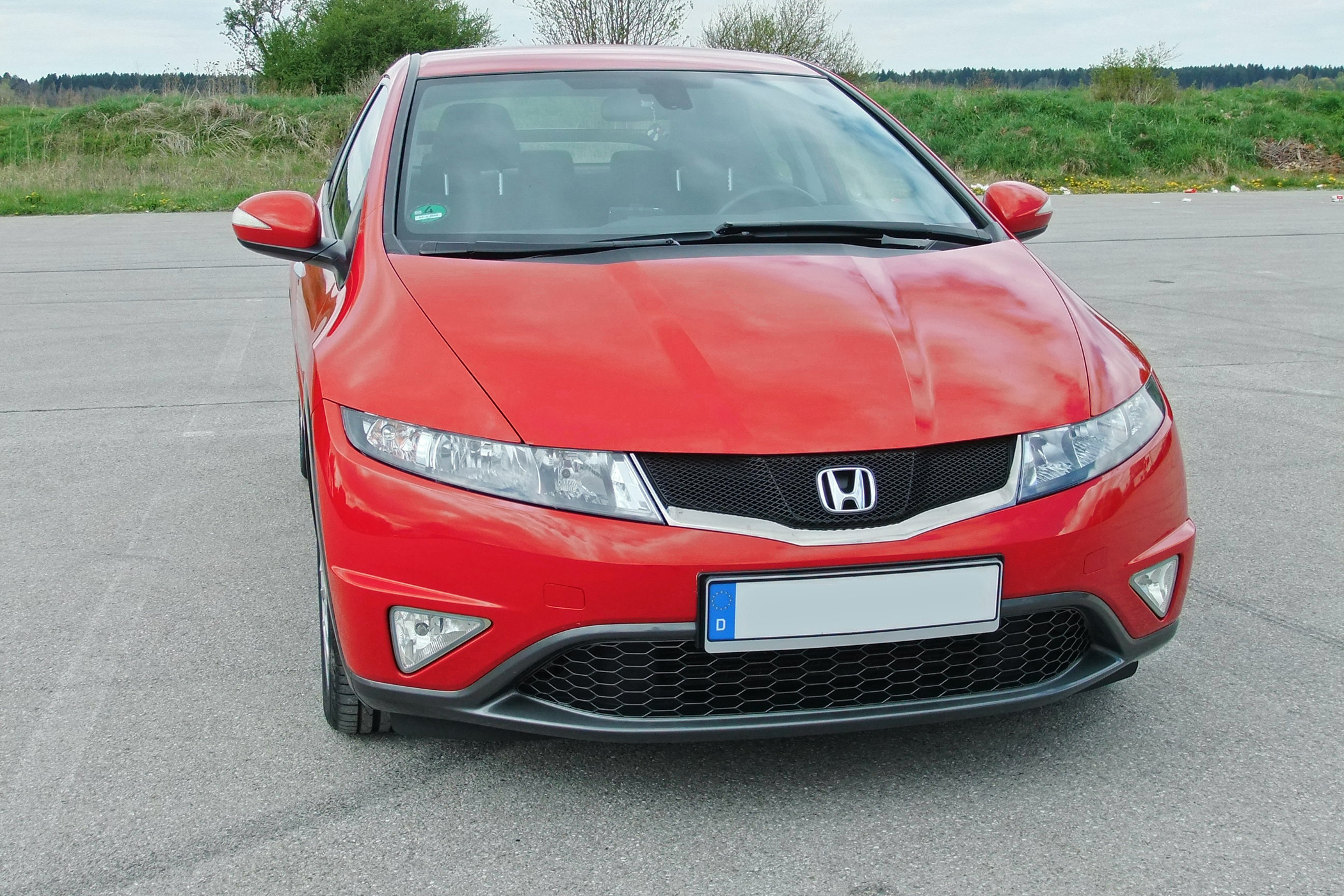 Honda Civic 1.8 i-VTEC Mk. VIII front